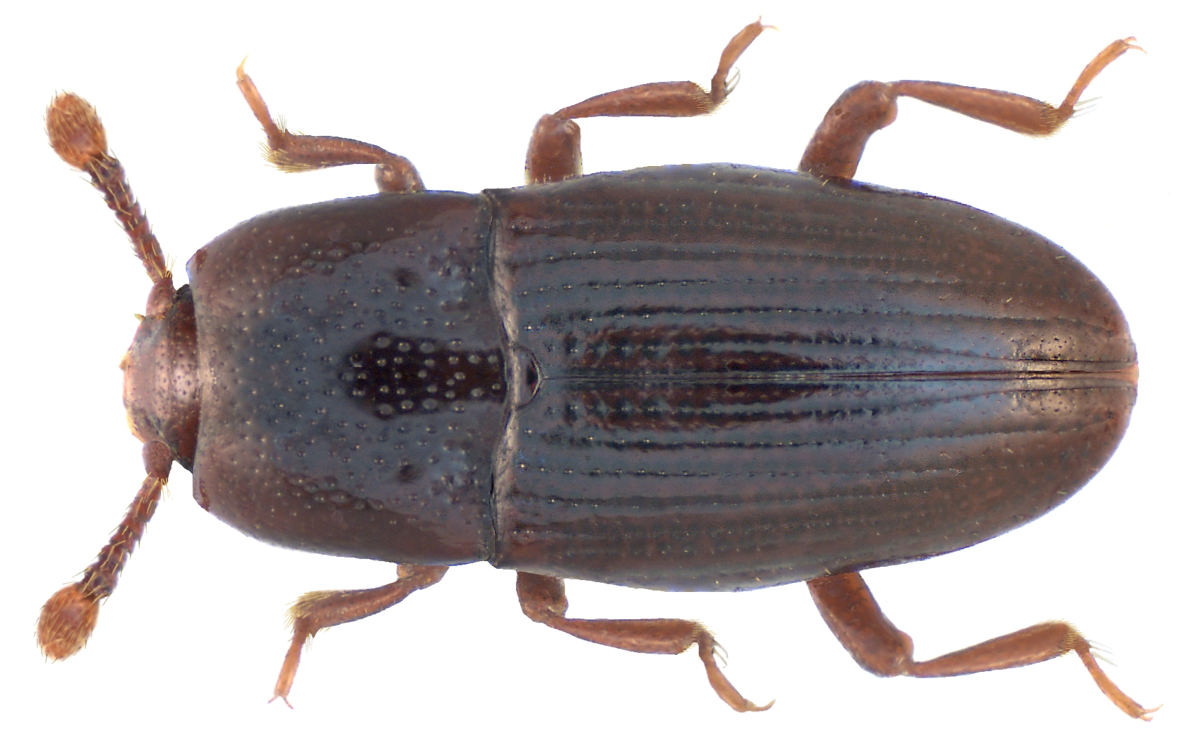 Cerylon fagi Brisout, 1867 Family: Cerylonidae Size: 2,5 mm (2,1-2,6 mm) Origin: Europe Ecology: in forests with old books, under bark Location: Germany, Bavaria, Upper Franconia, Kulmbach leg.det. U.Schmidt, 18.V.1981 Photo: U.Schmidt, 2013